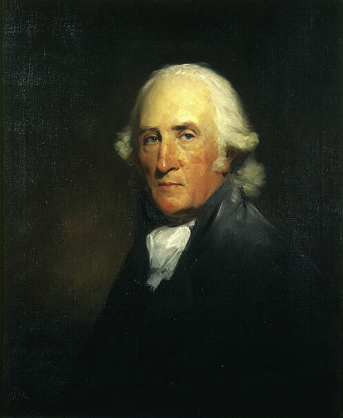 Photograph of Rev. Alexander Carlyle, 1722 - 1805. Divine and pamphleteer., 1796 by Sir Henry Raeburn, in the public domain.